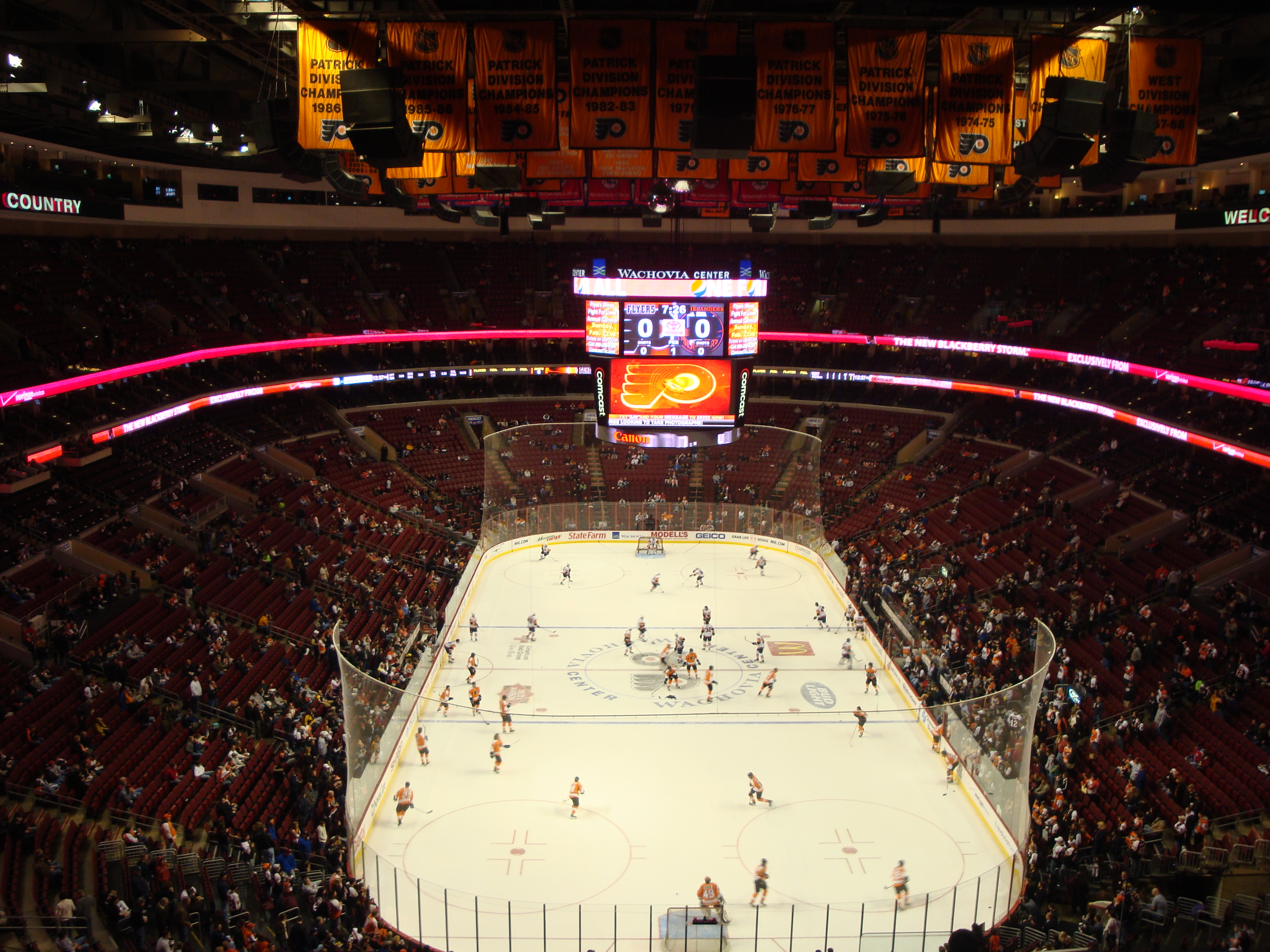 Wells Fargo Center prior to a Flyers game.